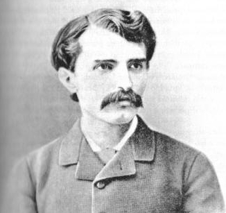 Alfredo Catalani-portrait